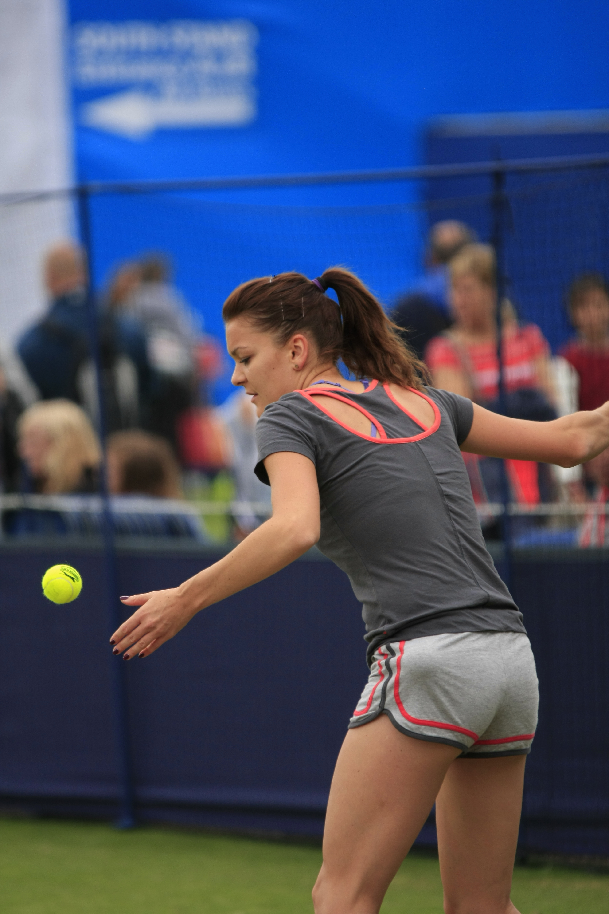 Radwanska at the Aegon International Tennis, June 2014